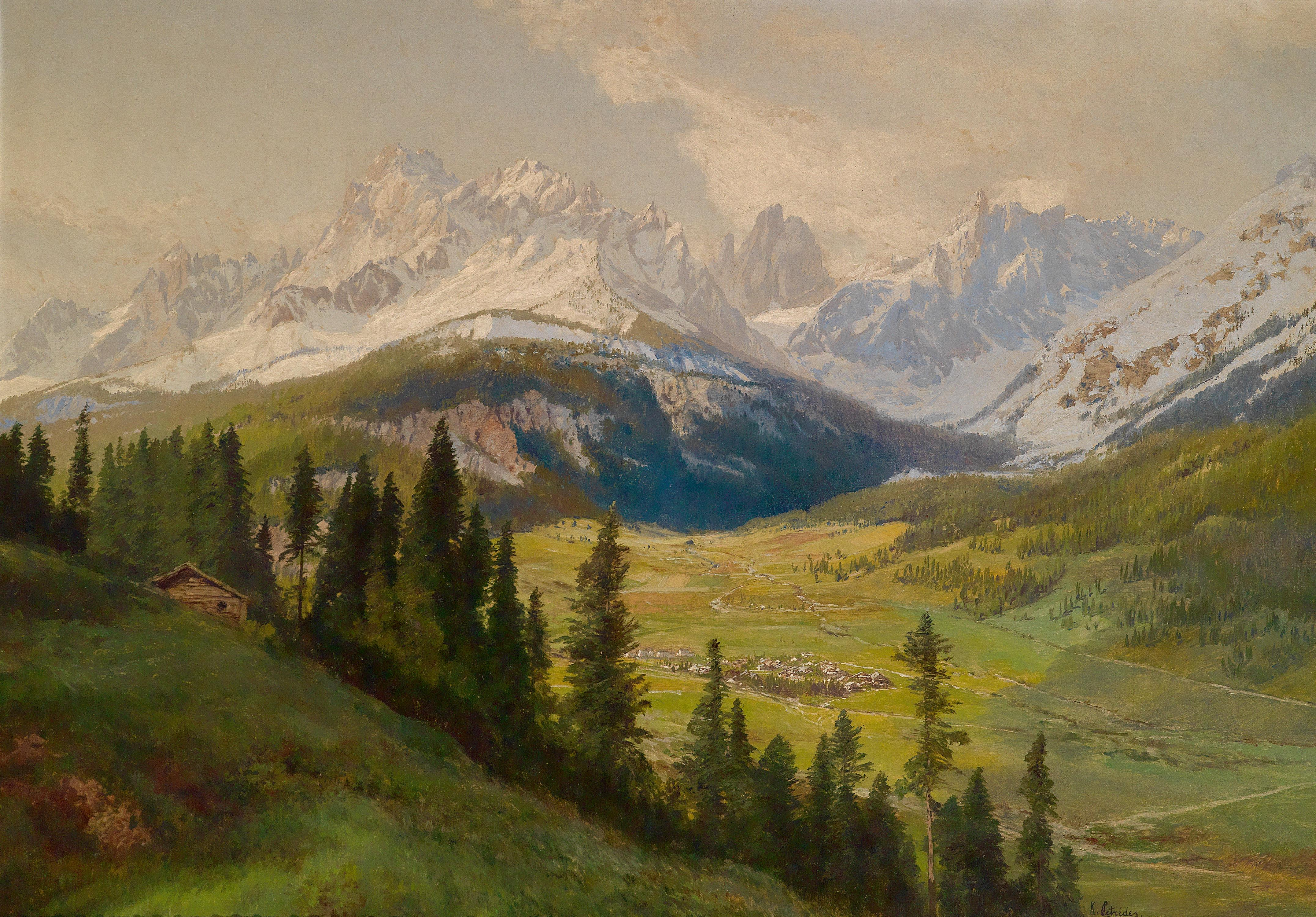 Sexten Village, Sexten Sundial (Sexten Dolomites) and the Fischleital Valley - View from Mount Helm